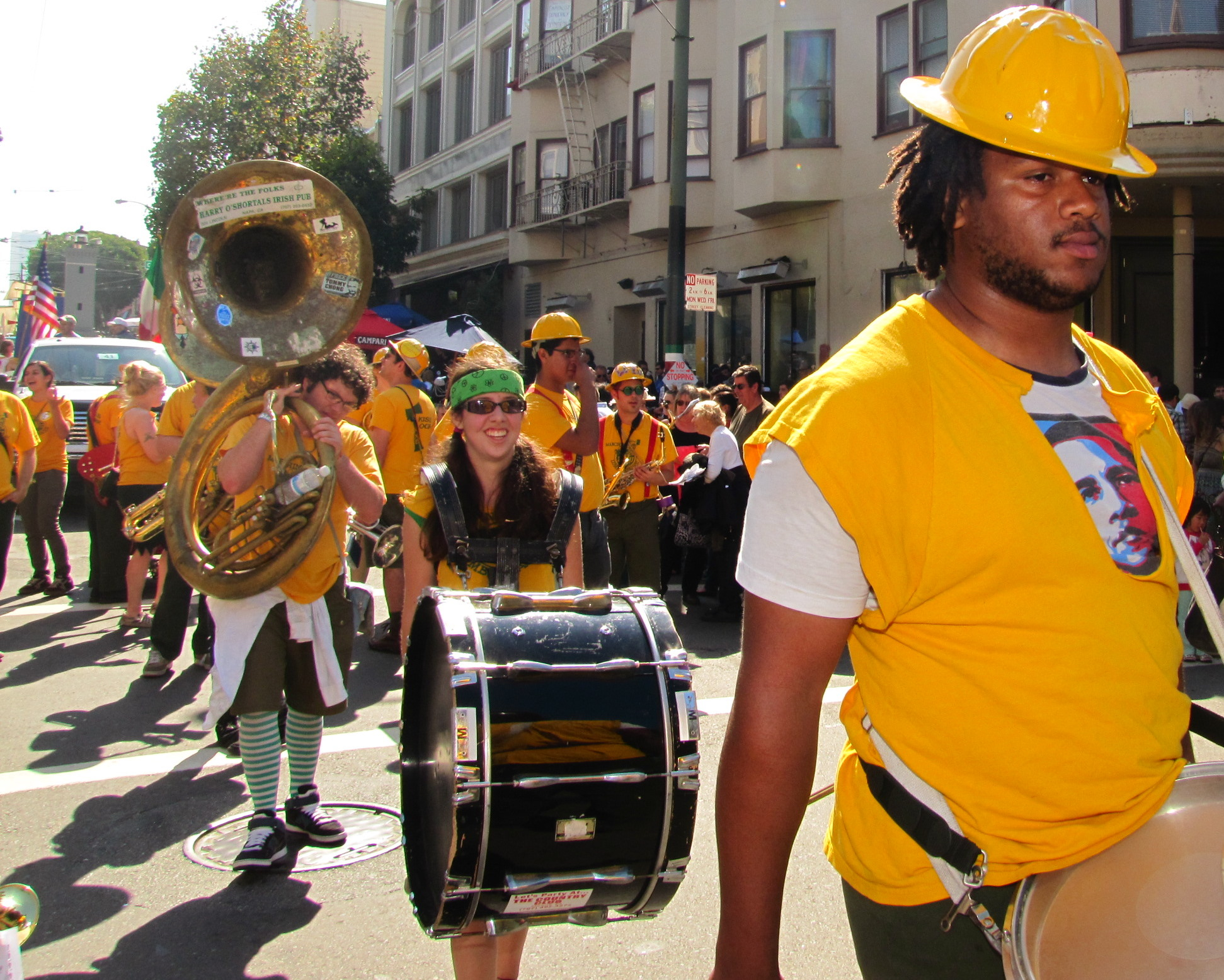 Humboldt State University Marching Lumberjacks at Columbus Day Italian Heritage Parade in SF North Beach 2011